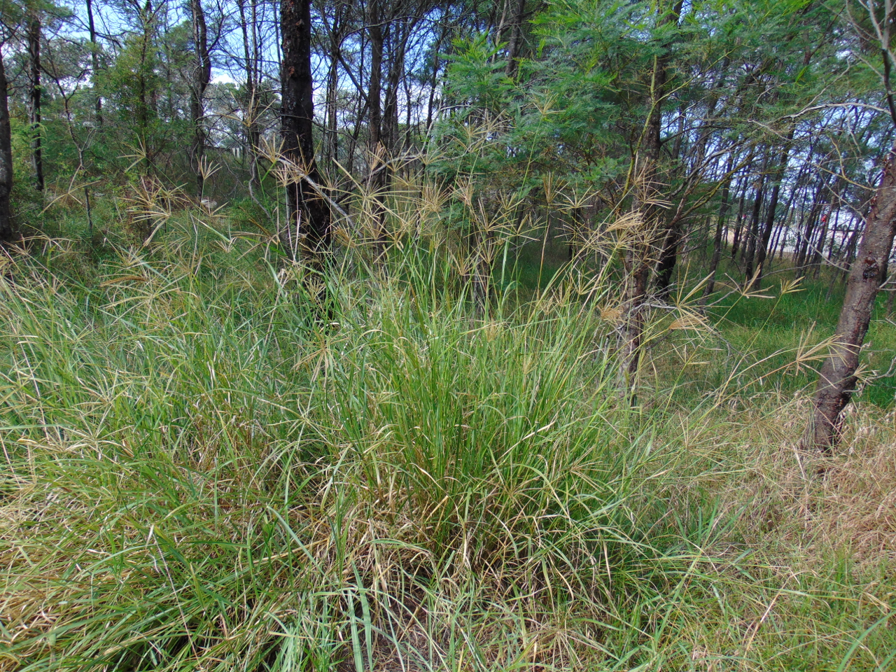 Chloris gayana, Pheasants Nest, New South Wales. This species is often planted around Sydney to stabilize road verges.